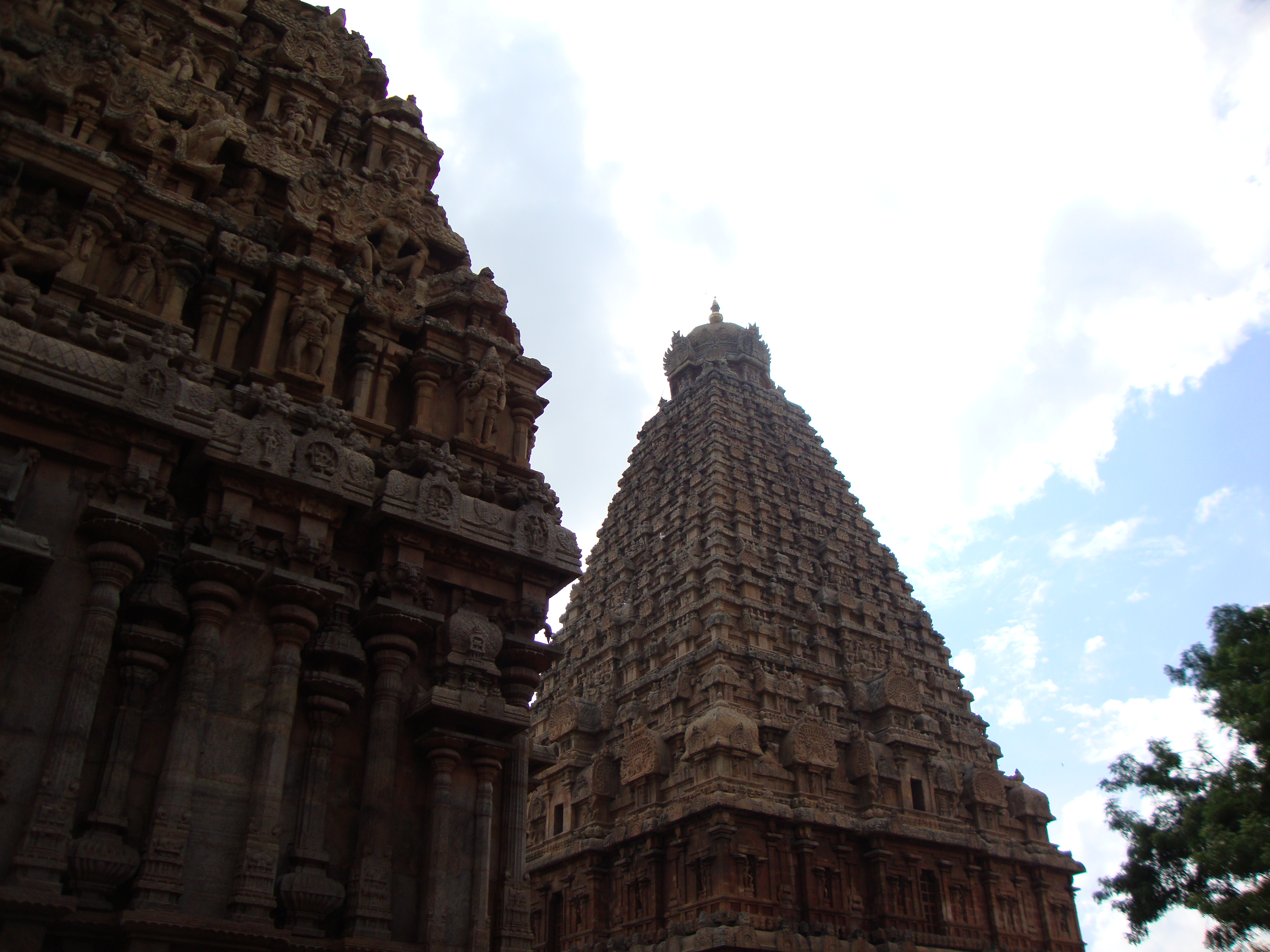 The famous 1000 year old Cholan Monument in Tanjore-"THE BIG TEMPLE". One of the UNESCO world heritage sites in India. No words to express the magical things that it holds. See it to know it